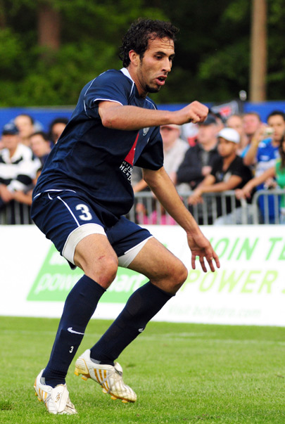 Photo of soccer player, Andres Arango. Wilson Wong photo.